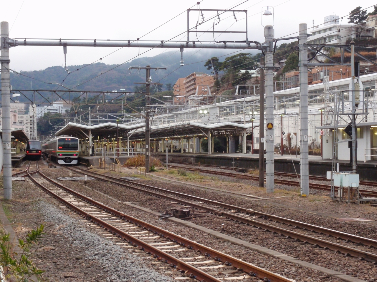 Tokaido Line Atami Sta. from Tokyo